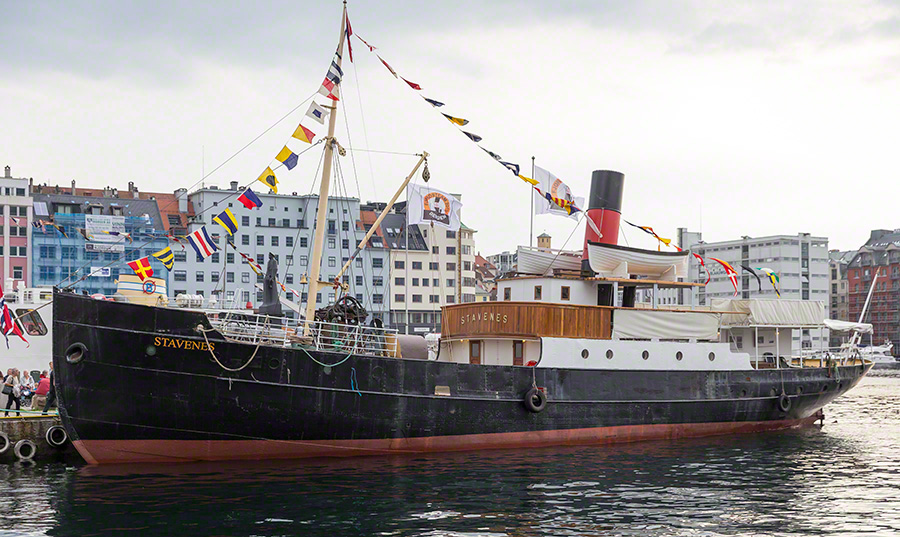 Vintage steamer "Stavenes" from 1904, docked in Bergen during Fjordsteam 2013.